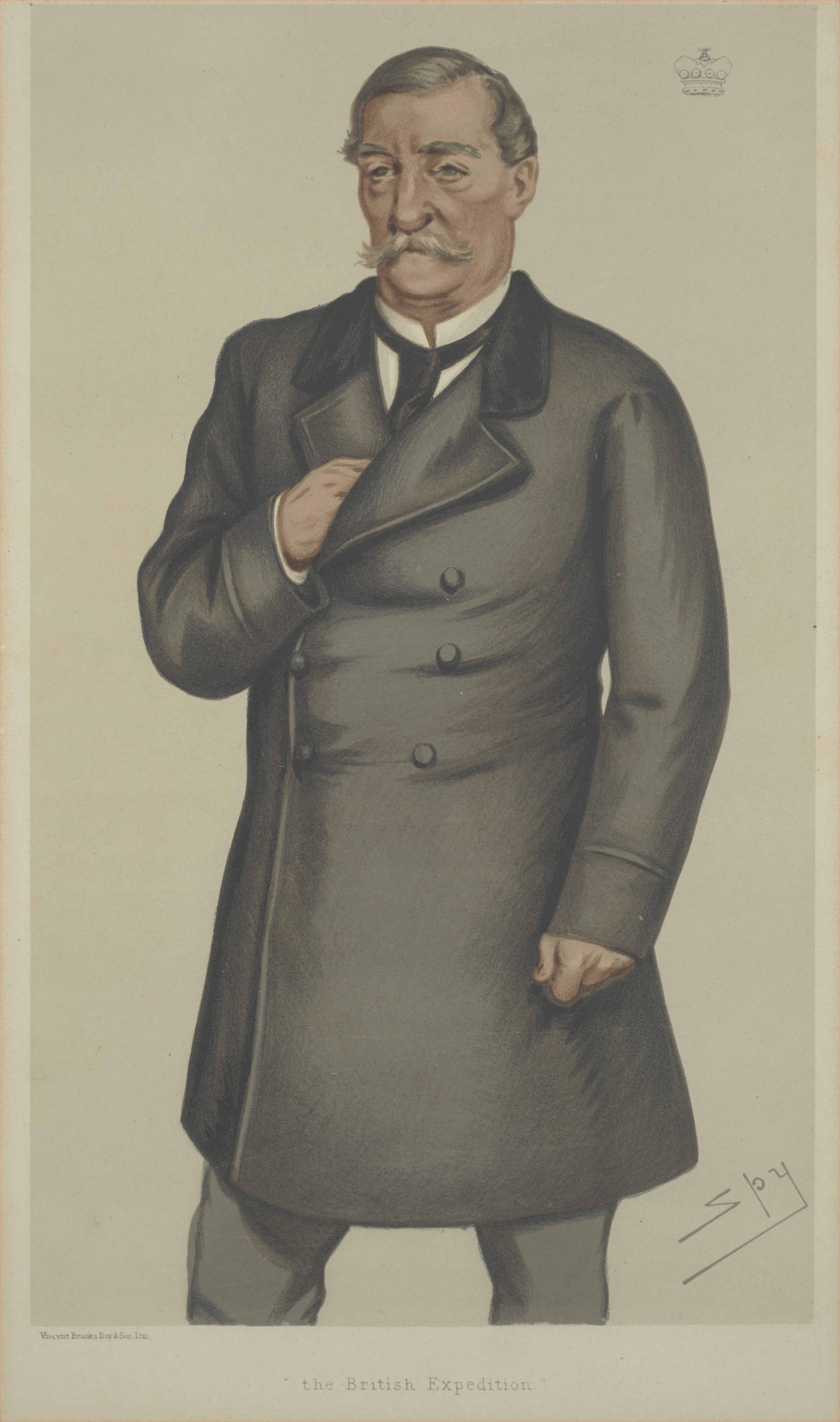 Men of the Day No.177: Caricature of Gen Lord Napier of Magdala GCB. Caption reads: "The British Expedition"